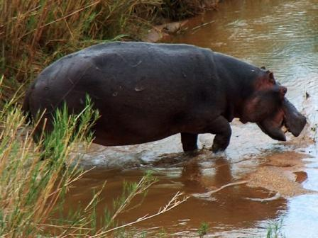 Hippopotamus amphibius in Kruger National Park